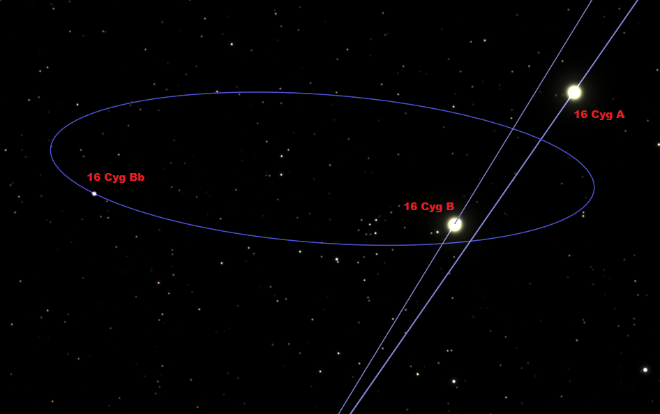 Image of star system en:16 Cygni.